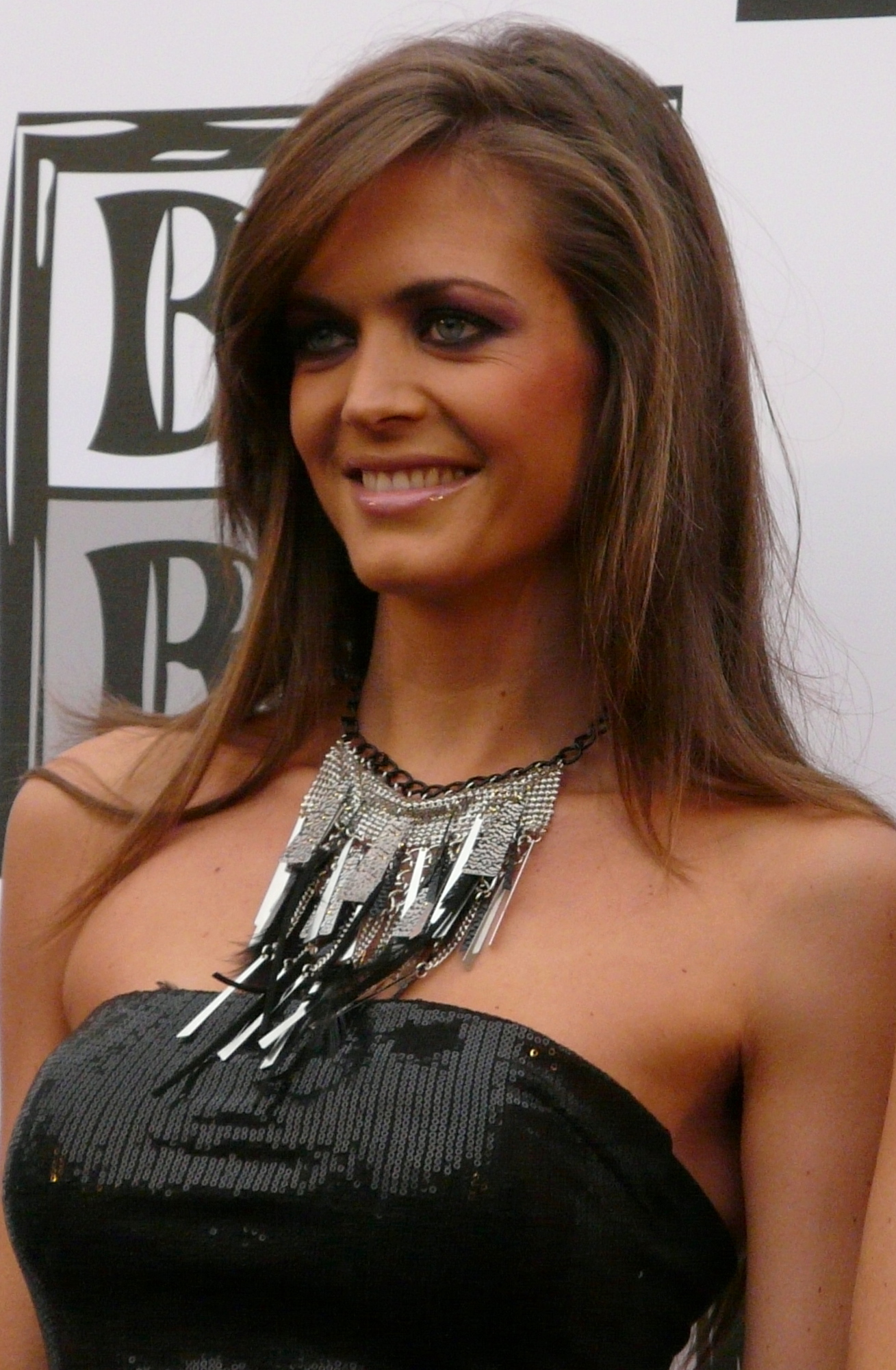 Astrid "totally pimped out, chromed out" Bryan ( a media phenomenon in Flanders in 2011 because of her hilarious Hollywood/Antwerp accent ) Tremelo